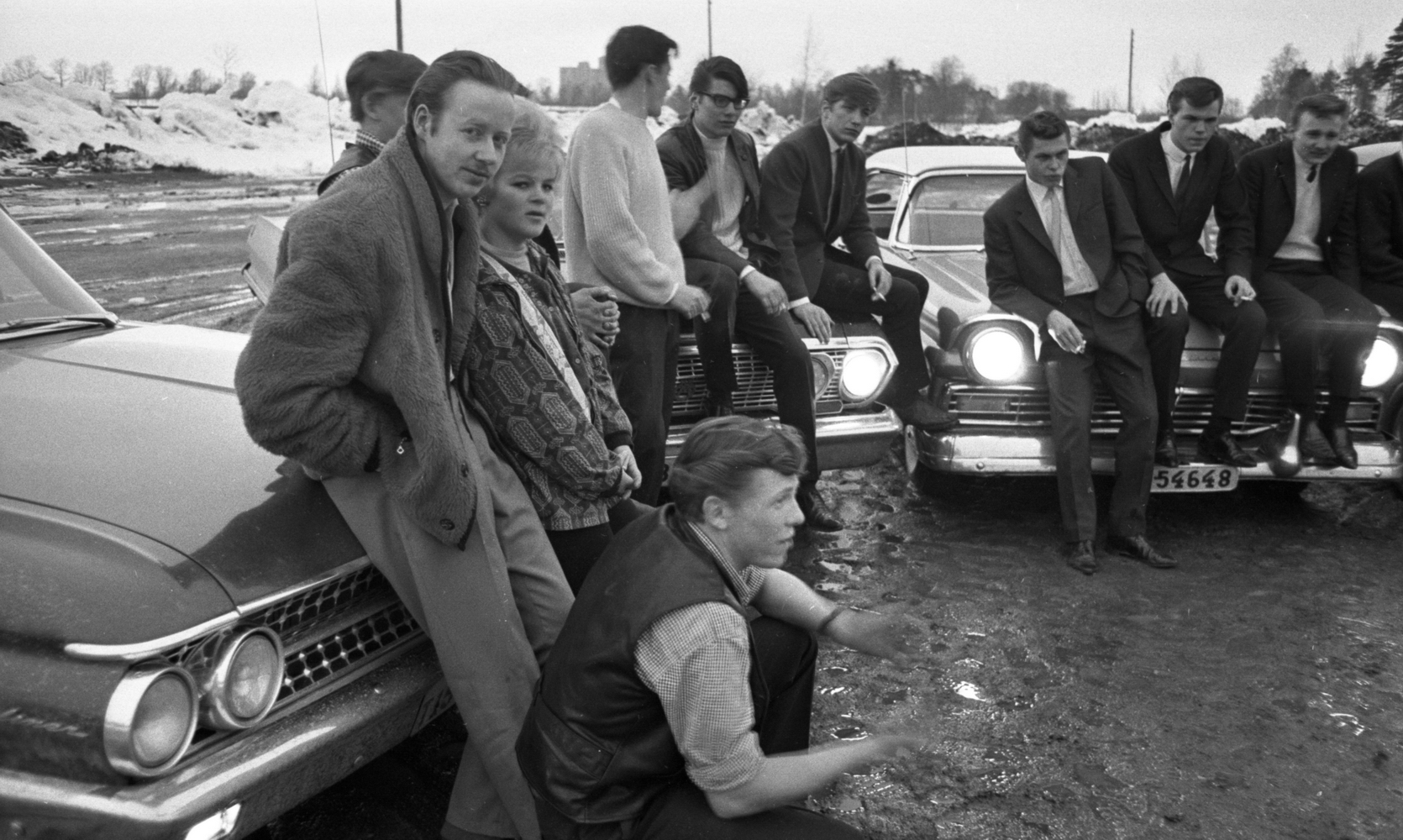 OLM-2012-8-3993 Raggare med bilar 1966